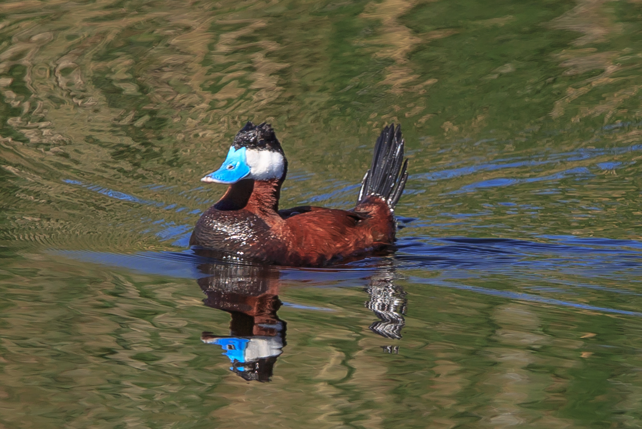 a morning near Strawberry Hill...Ruddy Duck (Oxyura jamaicensis)...